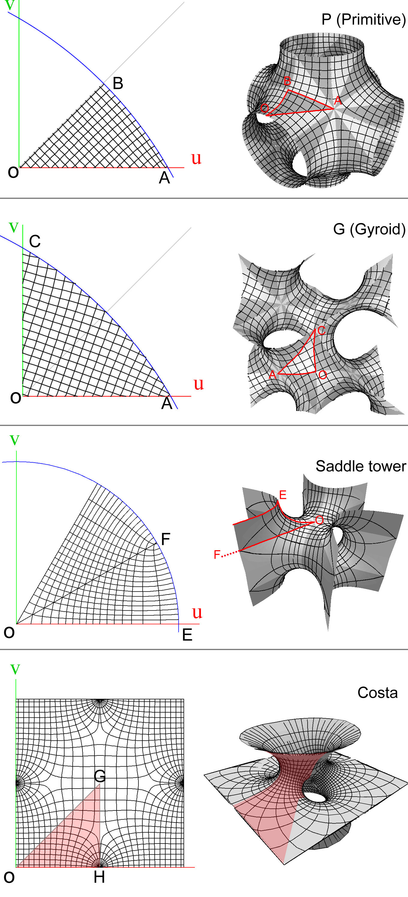 Left column: lines of curvature make a quadrangulation of the domain. For Schwarz P surface, the lines are orthogonal to OA and OC, and meet the AB arc at π/4. For Saddle tower, the lines are orthogonal to O E and E F, and meet OF at π/4. Right column: lines of curvature make a quadrangulation of the surface in R3.